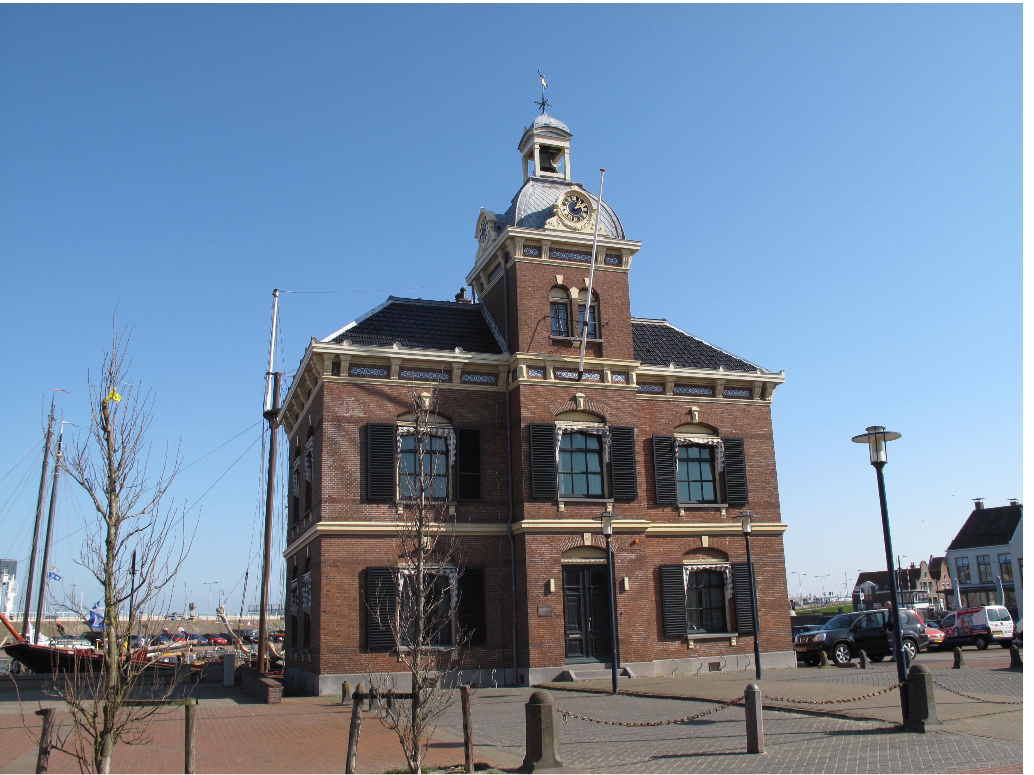 Harlingen, monumental building